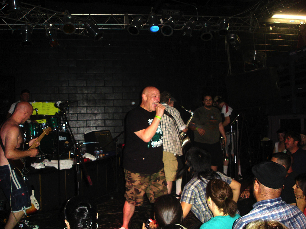 Bad Manners at Showcase Theater, Corona, Riverside County, California